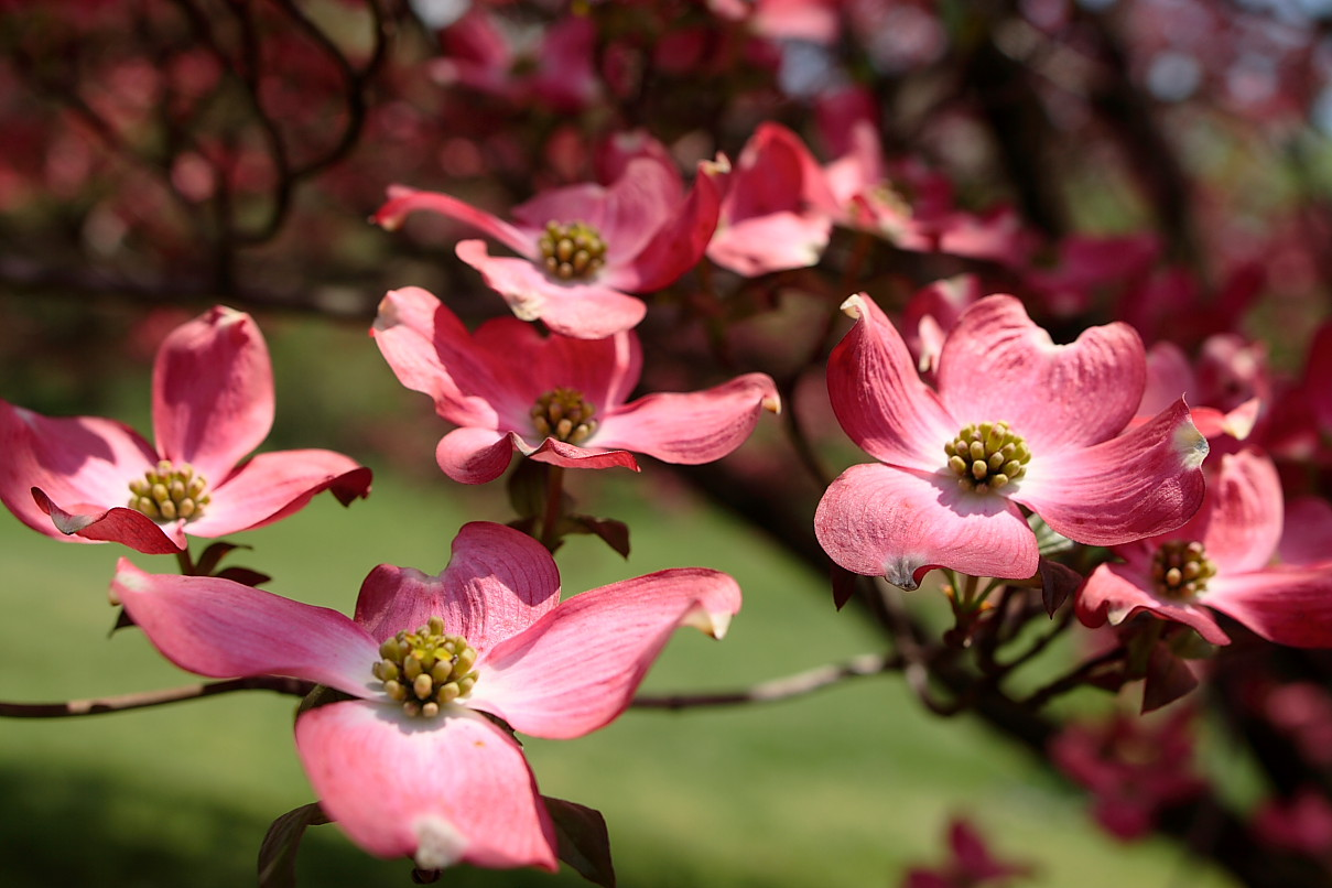 Cornus florida, pink-flowered cultivar, West Virginia, USA